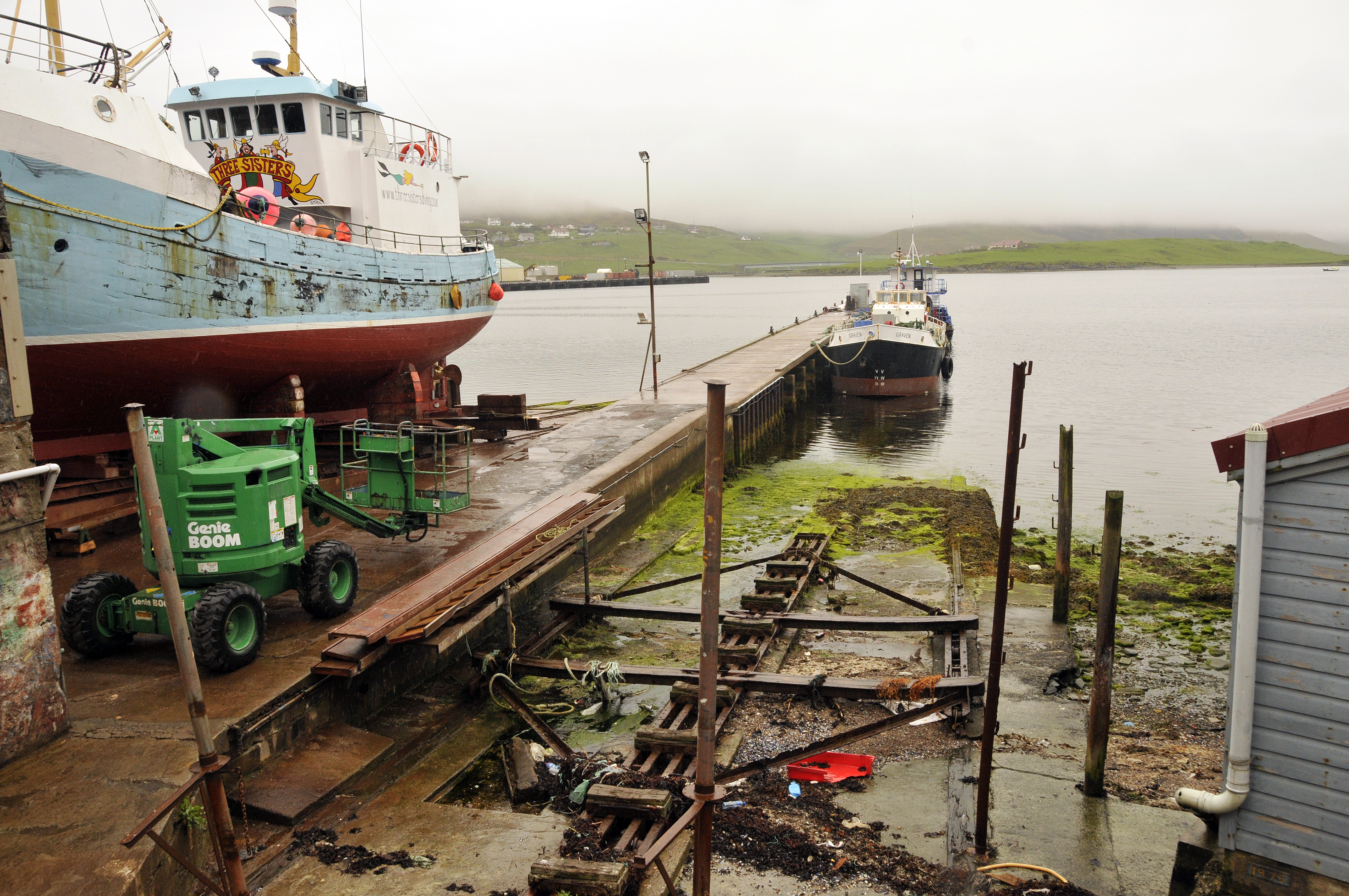 Prince Olav slipway i Scalloway, Shetland. Main base of the famous "Shetland gang" during the war. See Shetland bus